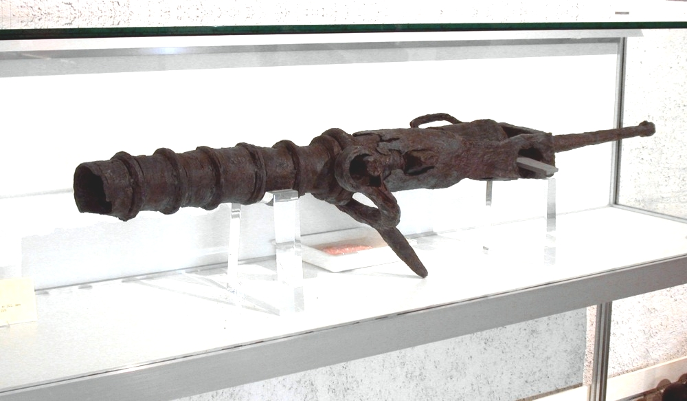 Early breech loader, swivel gun, barrel, Musée Militaire Vaudois, 1110 Morges, Switzerland